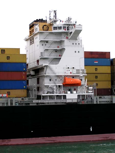 Hull mark on a container ship showing the presence of an active stabilisator.